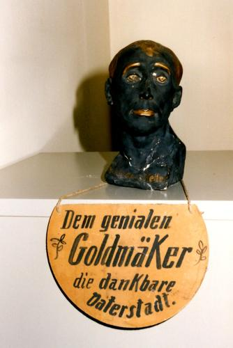 Bust of Heinrich "Heinz" Kurschildgen, called the "goldmaker of Hilden". The text reads: "Dem genialen Goldmäker, die dankbare Vaterstadt" (To the genial gold-maker, his grateful home town.)